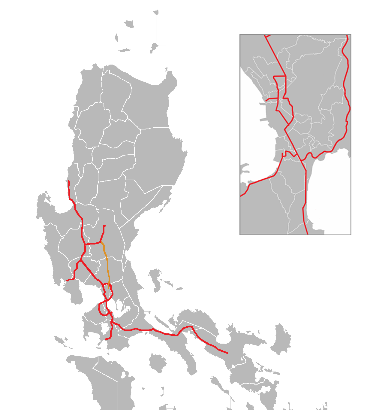 A map of NLEE.